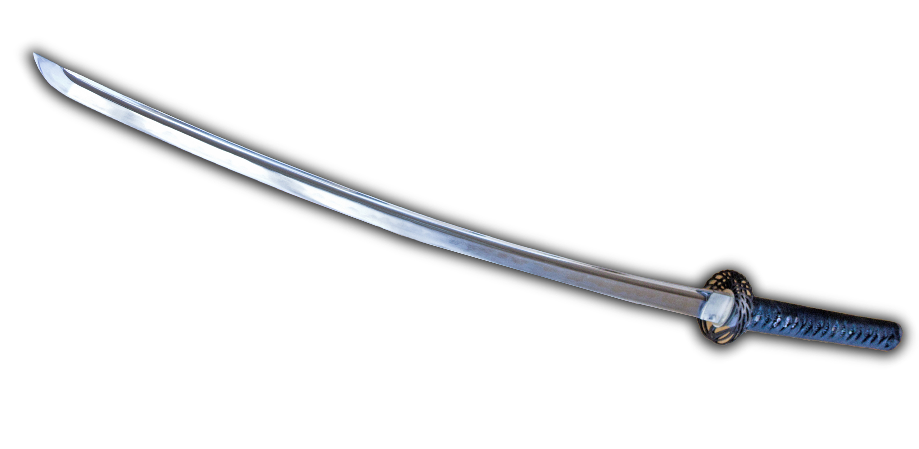 Iaito, a sword for the martial arts practice of iaido.